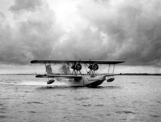 Naval Aircraft Factory XP4N-1 (PN-11, ex-XP2N-1) on takeoff.